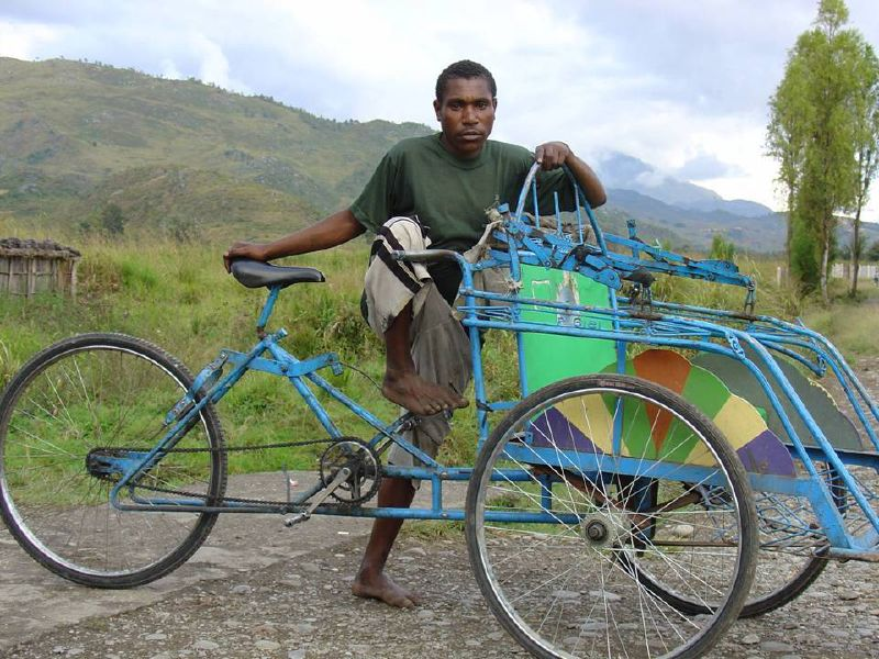 A man with a Becak (Bicycle rickshaw) in the Baliem Valley, Papua, Indonesia